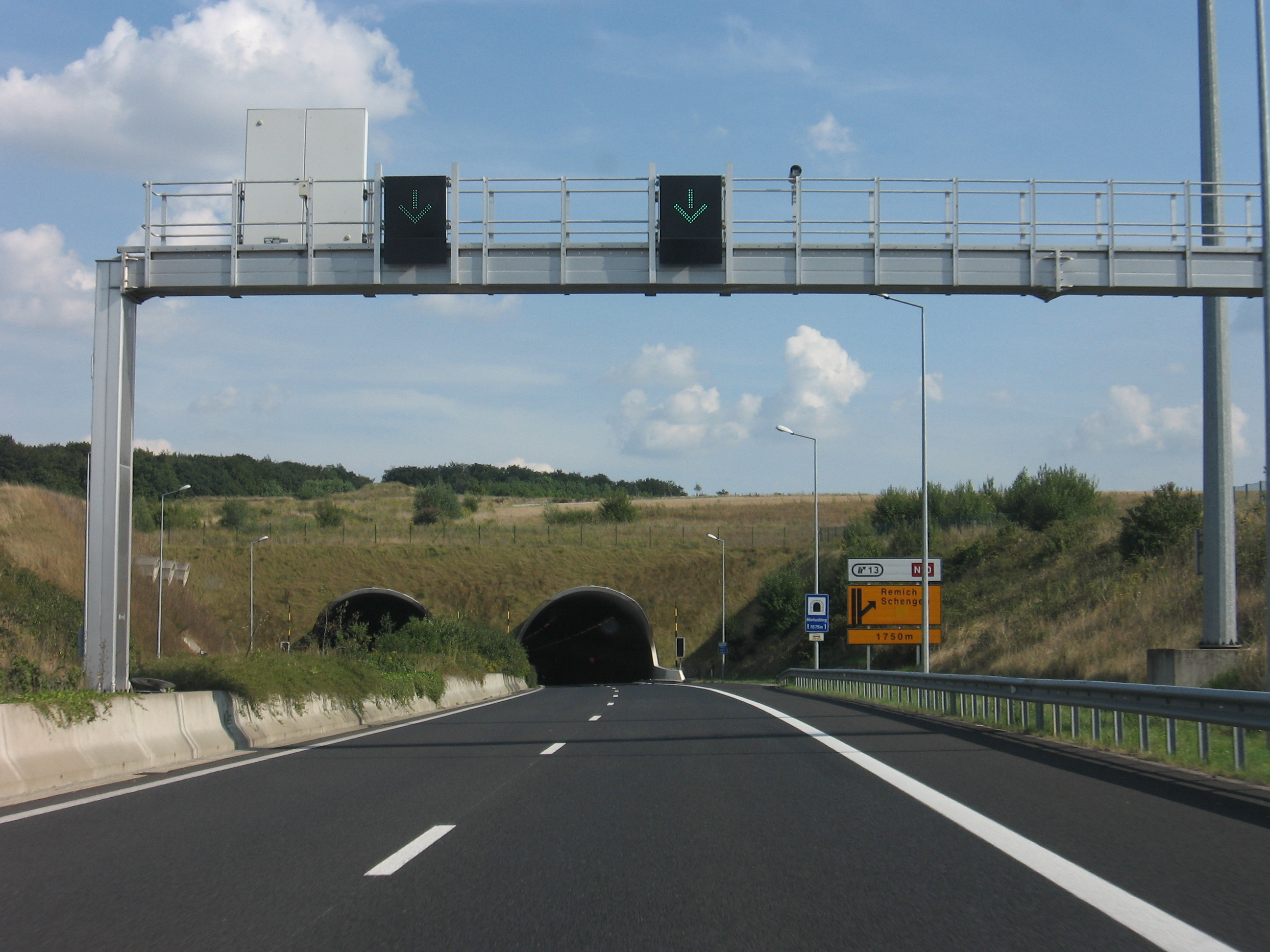 A13 (Luxemburg) tunnel Markusbierg